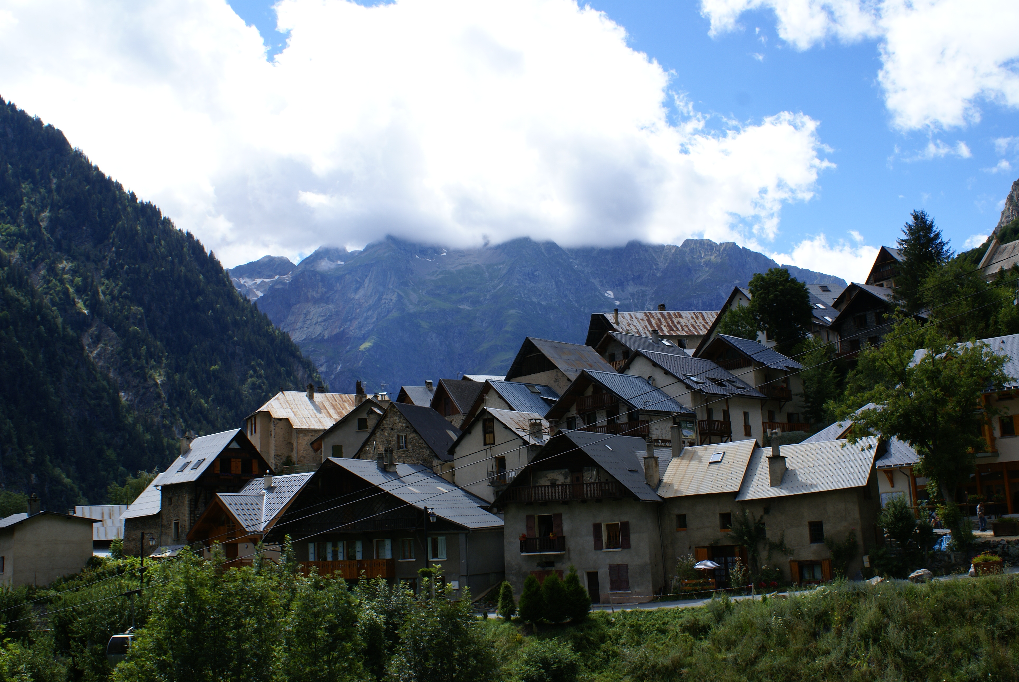 This the charming village of Venosc because of its' narrow pedestrian streets and its great view of the surrouding mountains.